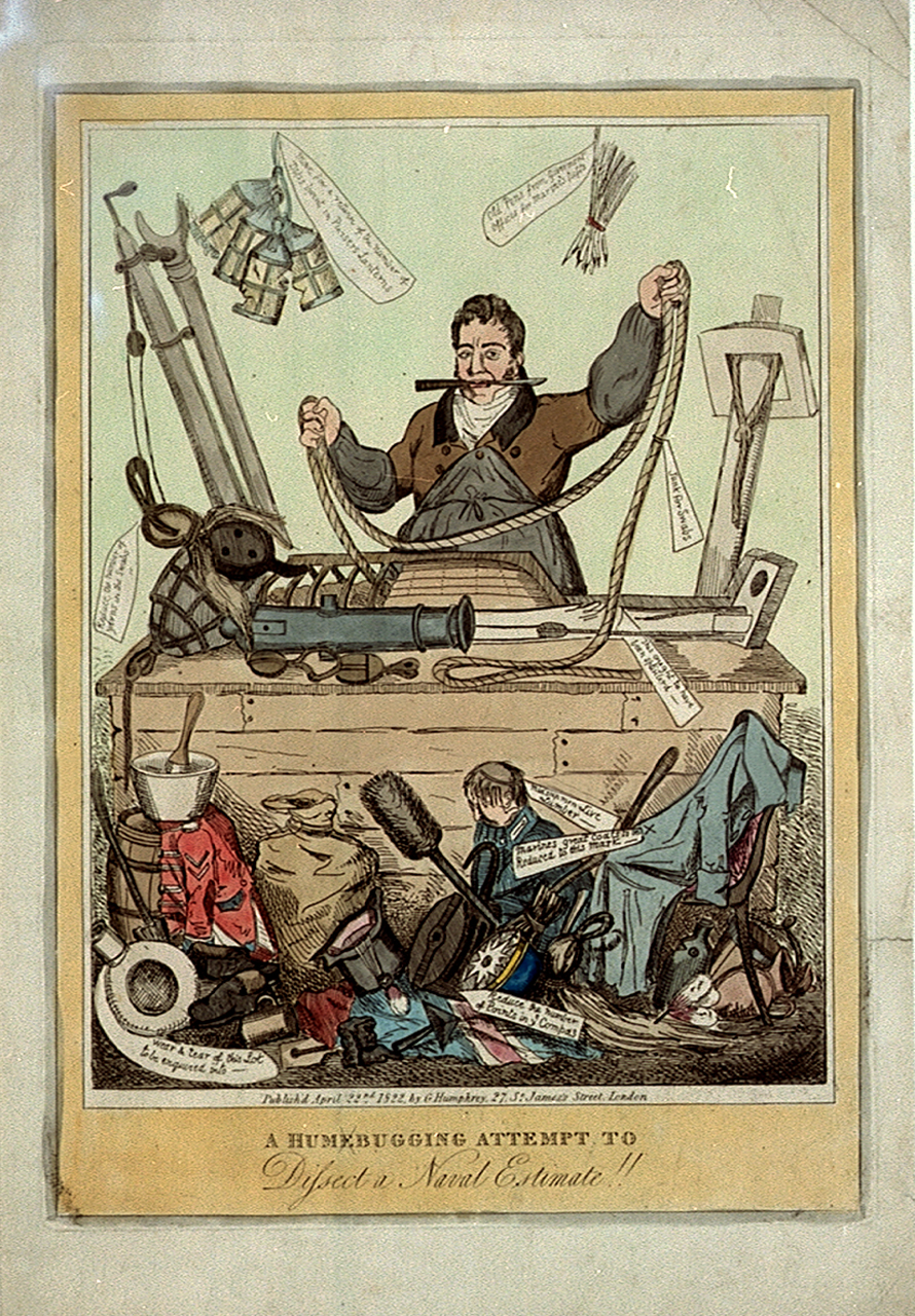 A Humebugging attempt to Dissect a Naval Estimate (caricature)Hand-coloured.